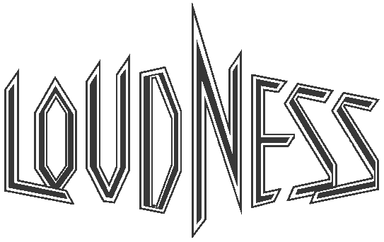 Band's logo.